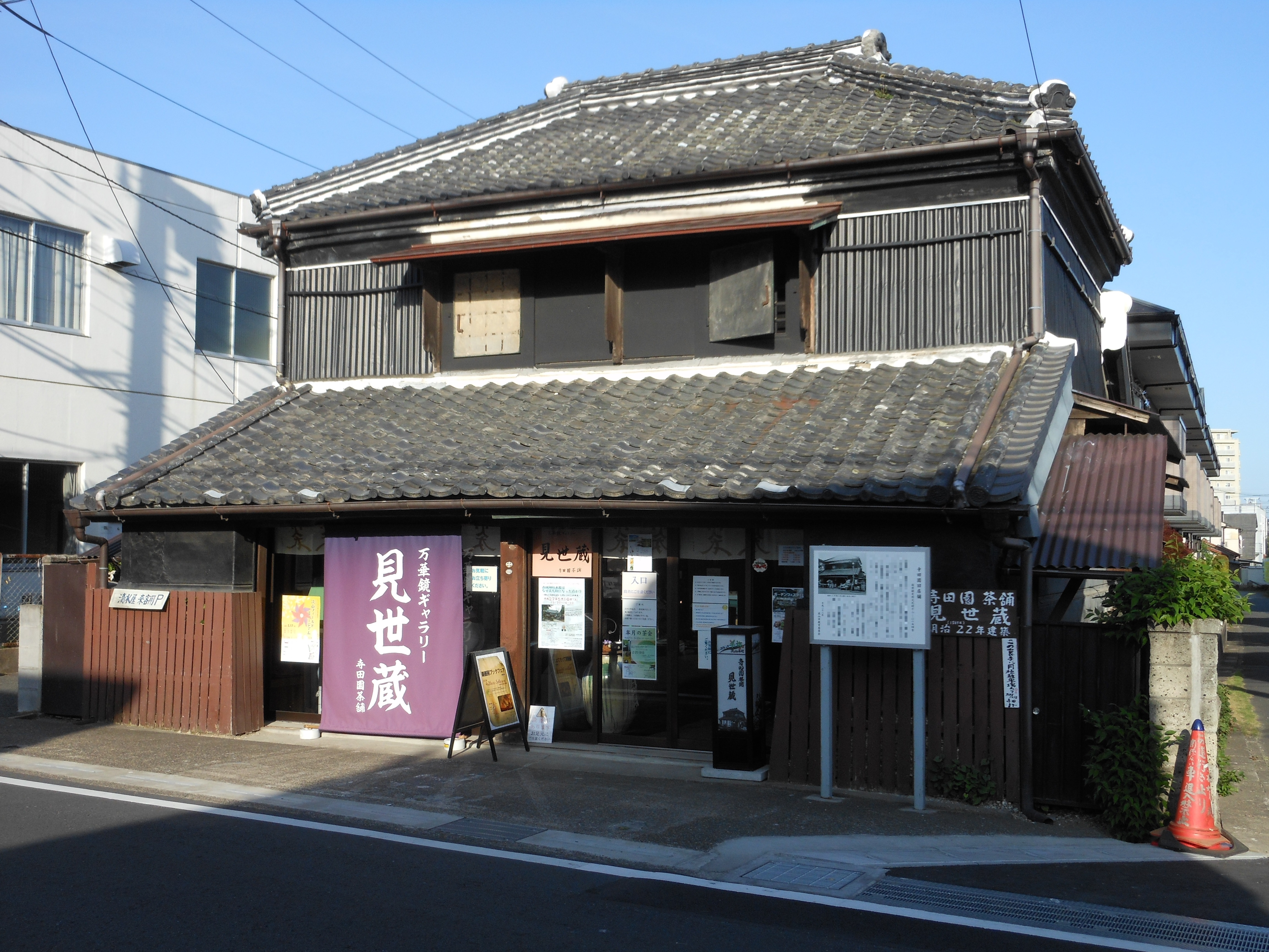 This is the Teradaen Former Shop, which is located in Nagareyama, Chiba, Japan. this building is a Registered Tangible Cultural Property of Japan. This building is used as "Kaleidoscope Gallery Misegura".